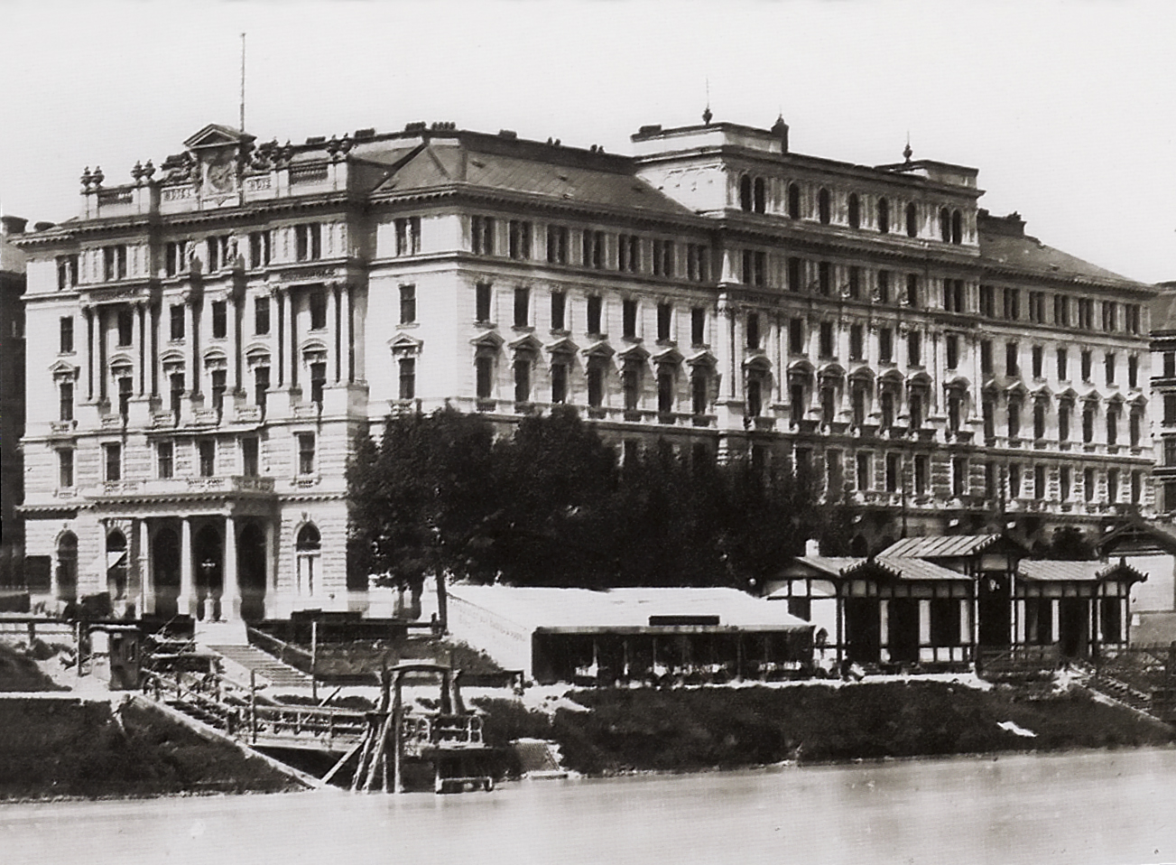 Hotel Metropol Vienna